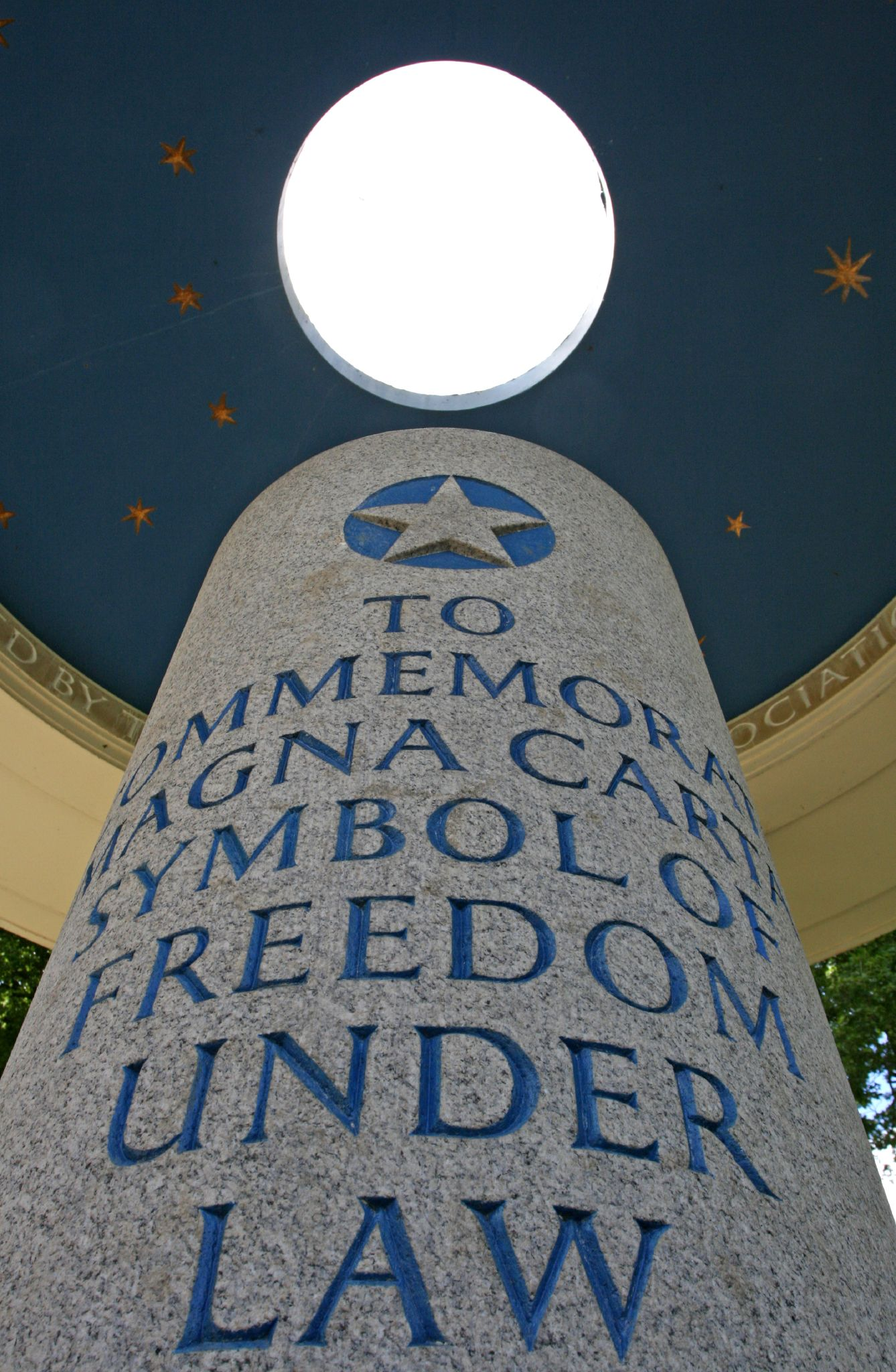 Magna Carta Memorial